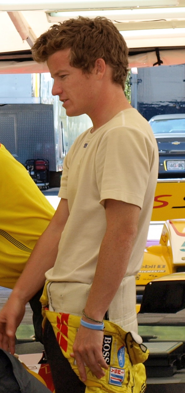 Patrick Long at the 2008 Petit Le Mans at Road Atlanta.